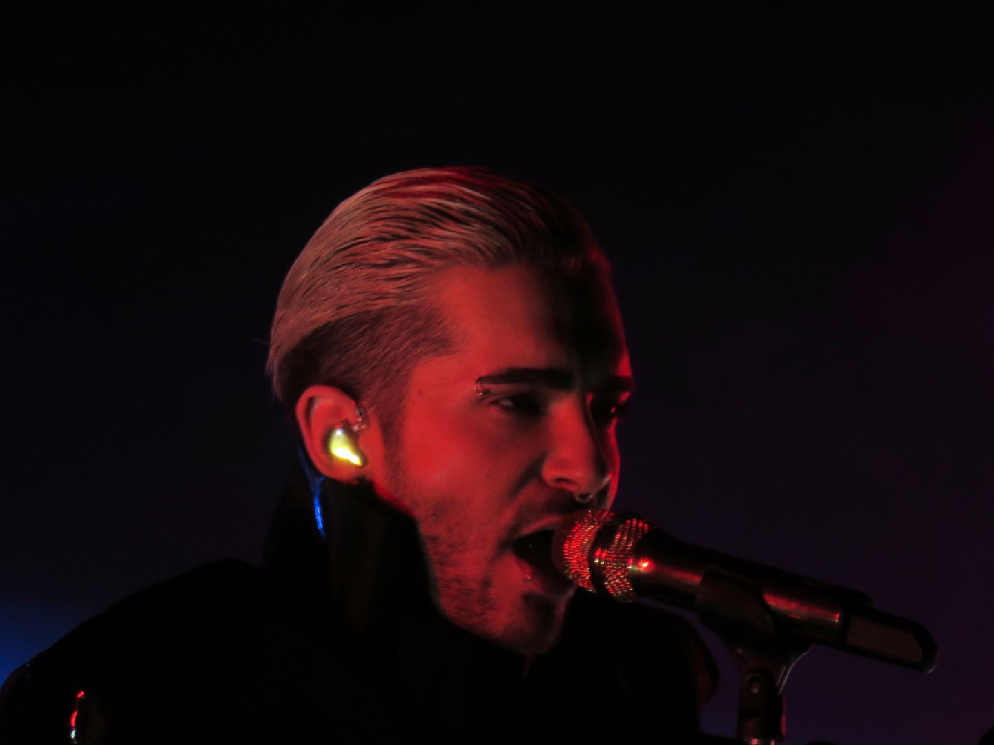 Bill Kaulitz perfoming under red light at the Volkhaus in Zurich, Switzerland.